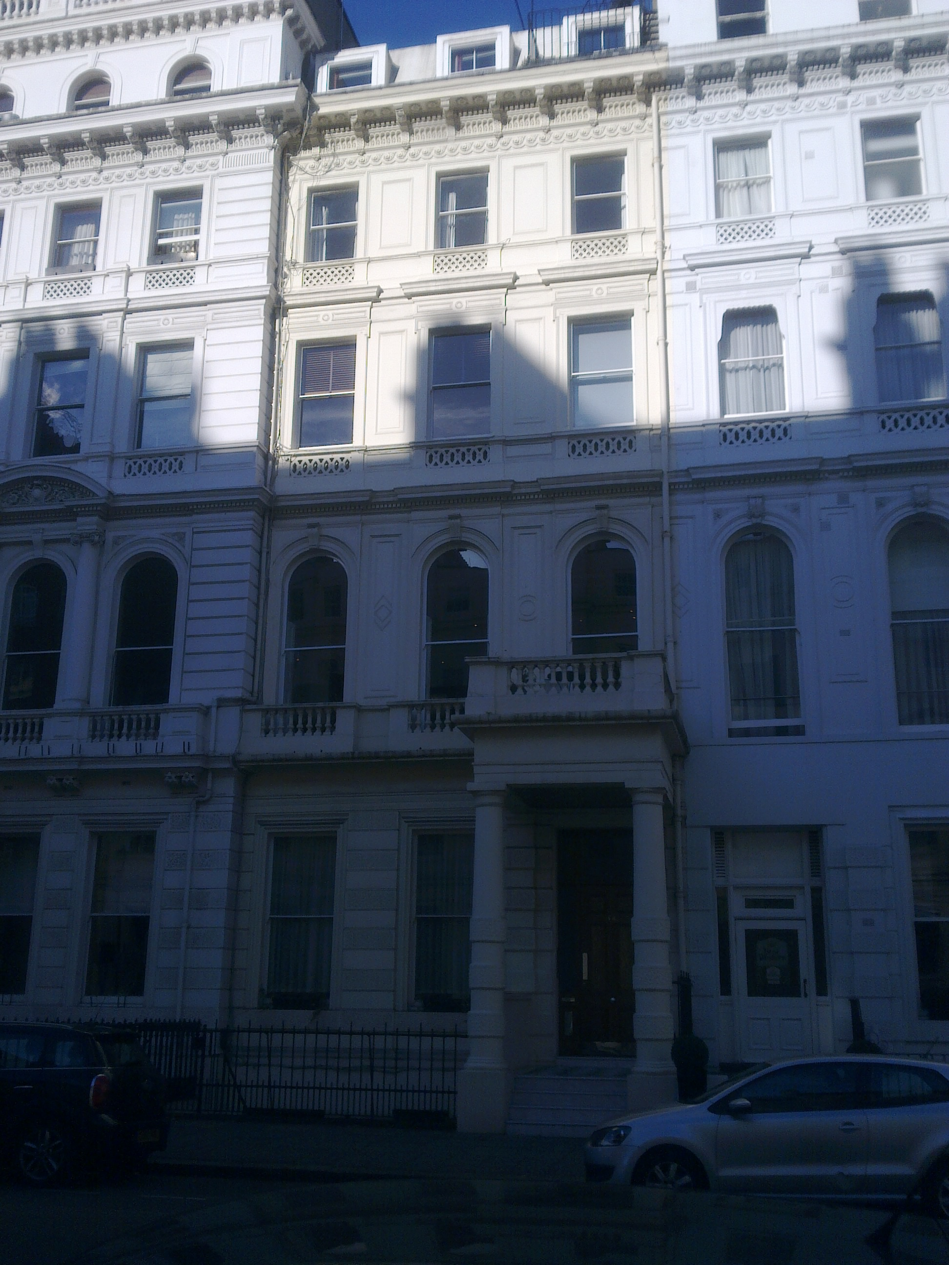 Embassy of Costa Rica in London 1